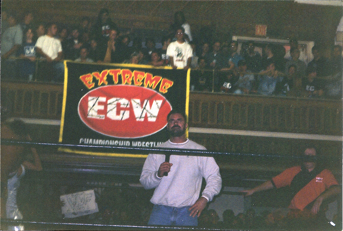 ECW TV Taping @ Elks Lodge in Queens. RIP